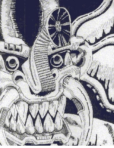 Artist's conception of Chaugnar Faugn, a Great Old One introduced in Frank Belknap Long's HORROR FROM THE HILLS.